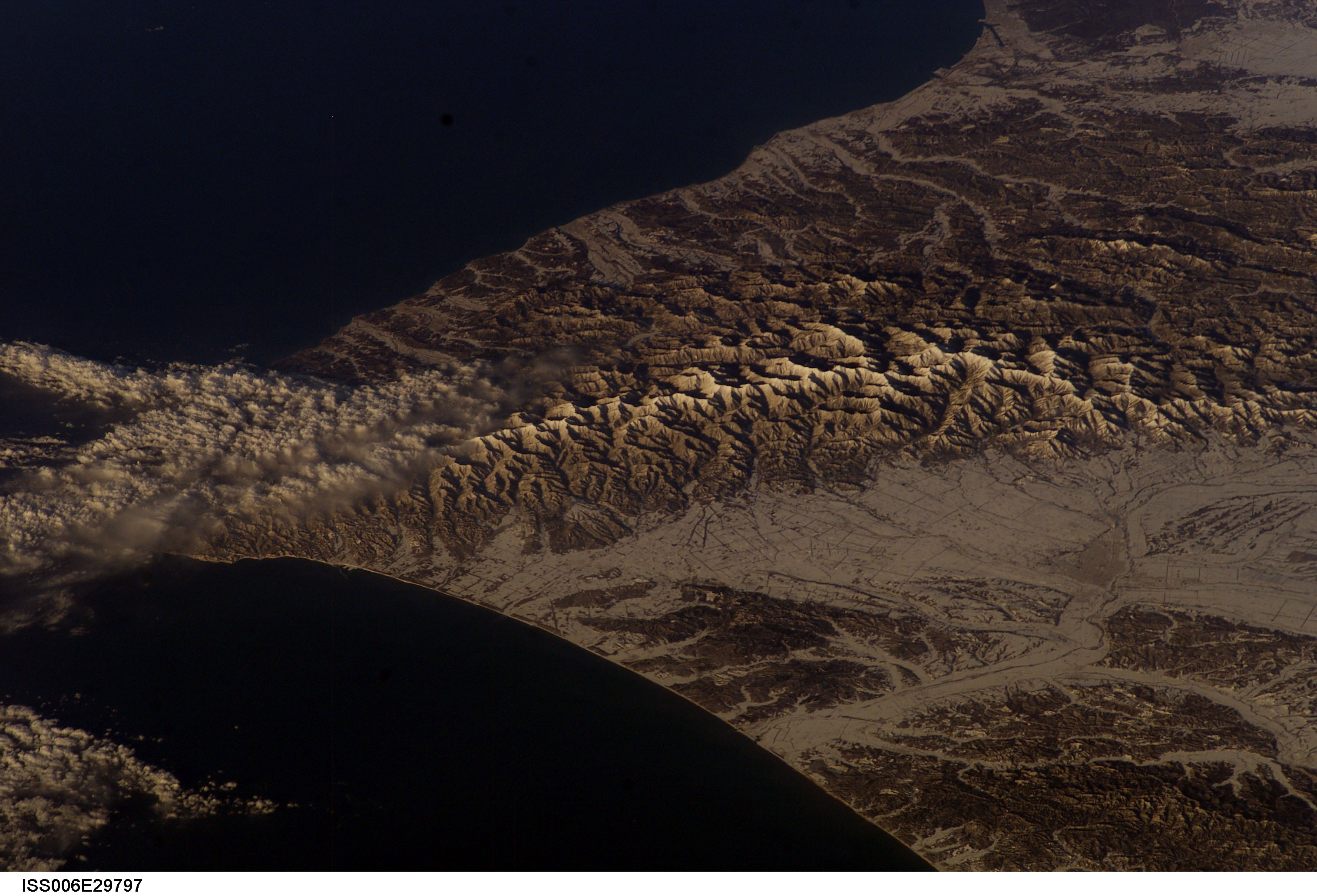 Contents 1 Info 1.1 Identification 1.2 Camera 1.3 Quality 1.4 Nadir 2 Original upload log Info HOKKAIDO, HIDAKA MOUNTAINS, taken from the International Space Station at 13:33:49 JST on Feb. 22, 2003. URL: This file is in the public domain because it was created by NASA. Identification Mission: ISS006 Roll: E Frame: 29797 Mission ID on the Film or image: ISS006 Country or Geographic Name: JAPAN Features: HOKKAIDO, HIDAKA MOUNTAINS Center Point Latitude: 42.5 Center Point Longitude: 143.0 (Negative numbers indicate south for latitude and west for longitude) Stereo: (Yes indicates there is an adjacent picture of the same area) ONC Map ID: JNC Map ID: Camera Camera Tilt: High Oblique Camera Focal Length: 180mm Camera: E4: Kodak DCS760C Electronic Still Camera Film: 3060E : 3060 x 2036 pixel CCD, RGBG array. Quality Film Exposure: Percentage of Cloud Cover: 10 (0-10) Nadir Date: 20030222 (YYYYMMDD)GMT Time: 223349 (HHMMSS) Nadir Point Latitude: 44.2, Longitude: 153.2 (Negative numbers indicate south for latitude and west for longitude) Nadir to Photo Center Direction: West Sun Azimuth: 125 (Clockwise angle in degrees from north to the sun measured at the nadir point) Spacecraft Altitude: 212 nautical miles (393 km) Sun Elevation Angle: 18 (Angle in degrees between the horizon and the sun, measured at the nadir point) Orbit Number: 318